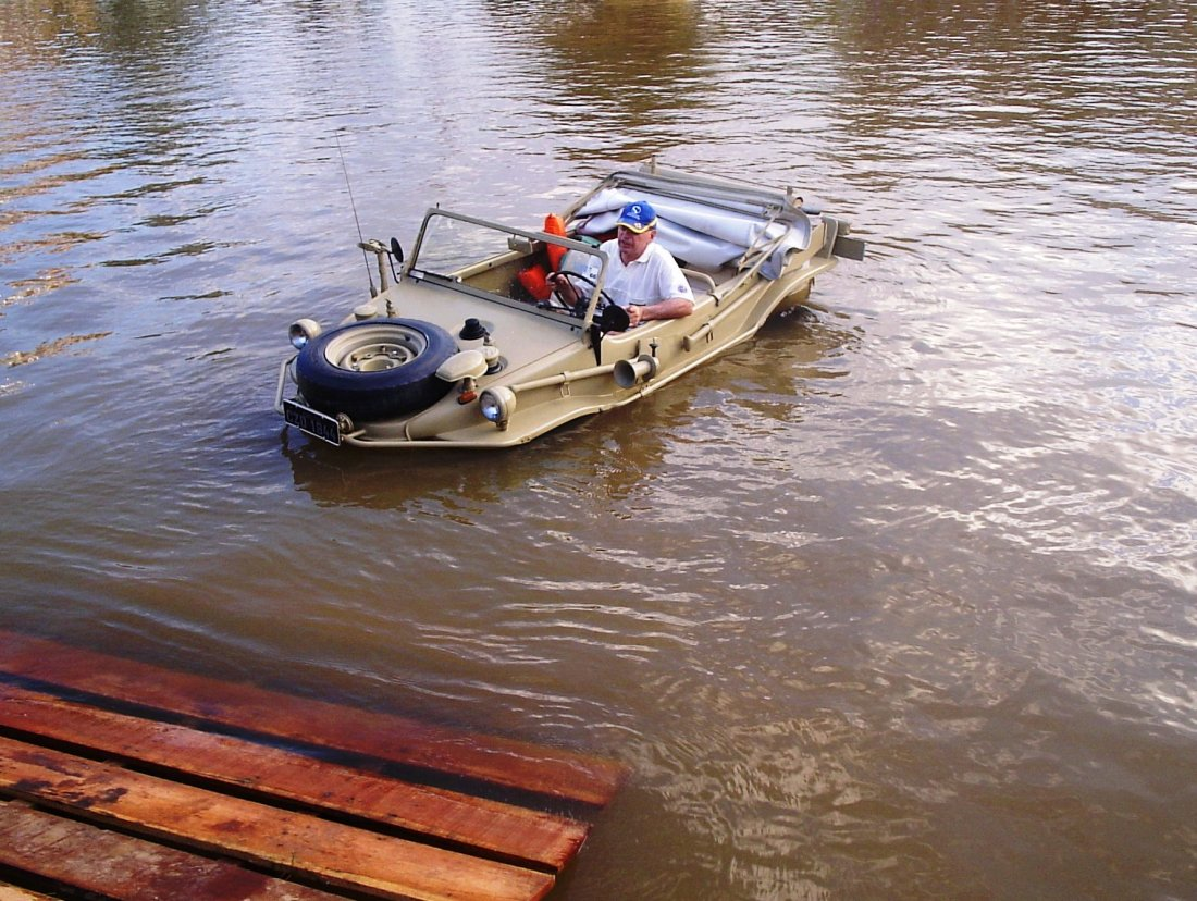 A 1944 Schwimmwagen during a smooth amphibian ride in Brazil.